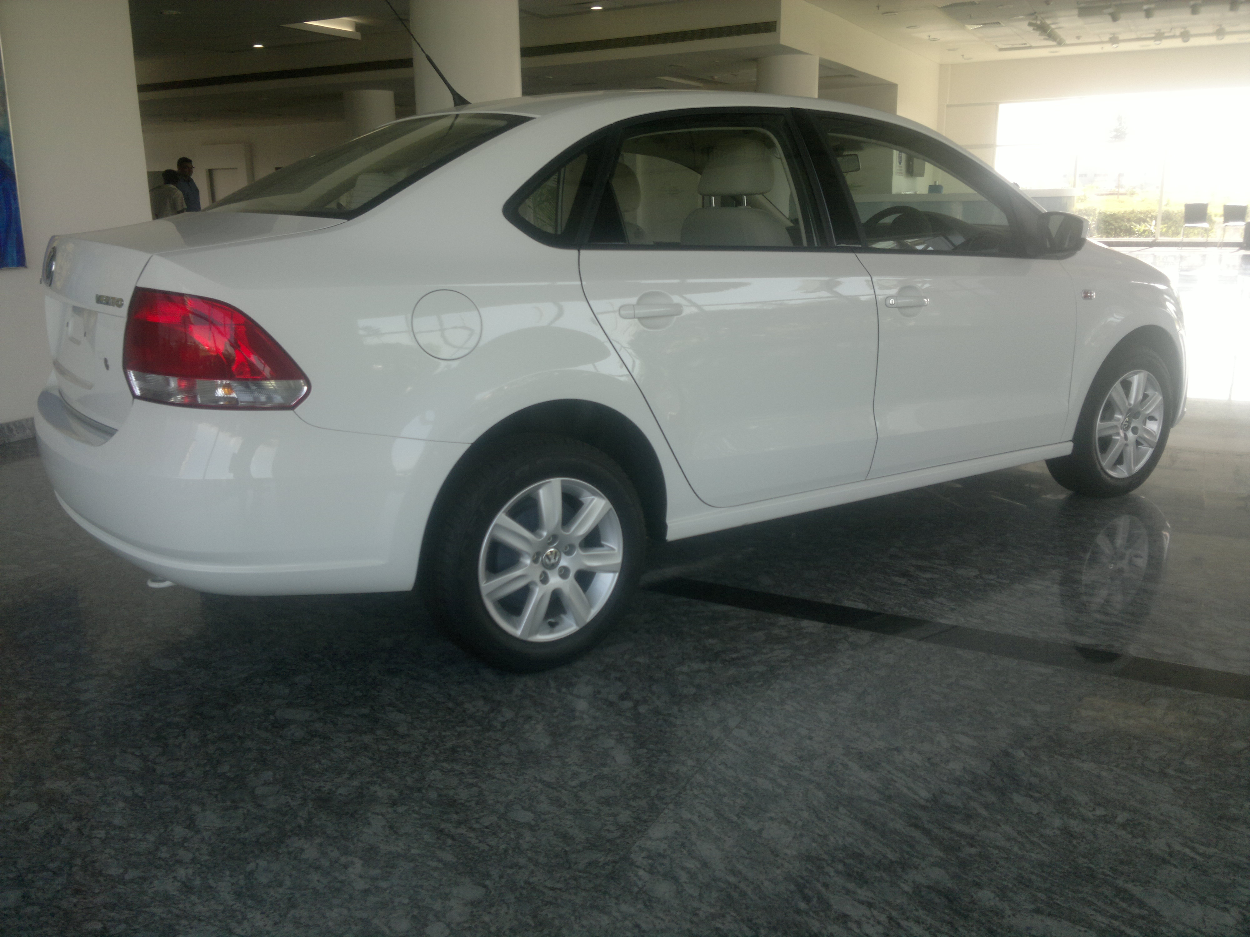 Vento at Volkswagen assembly plant in Pune